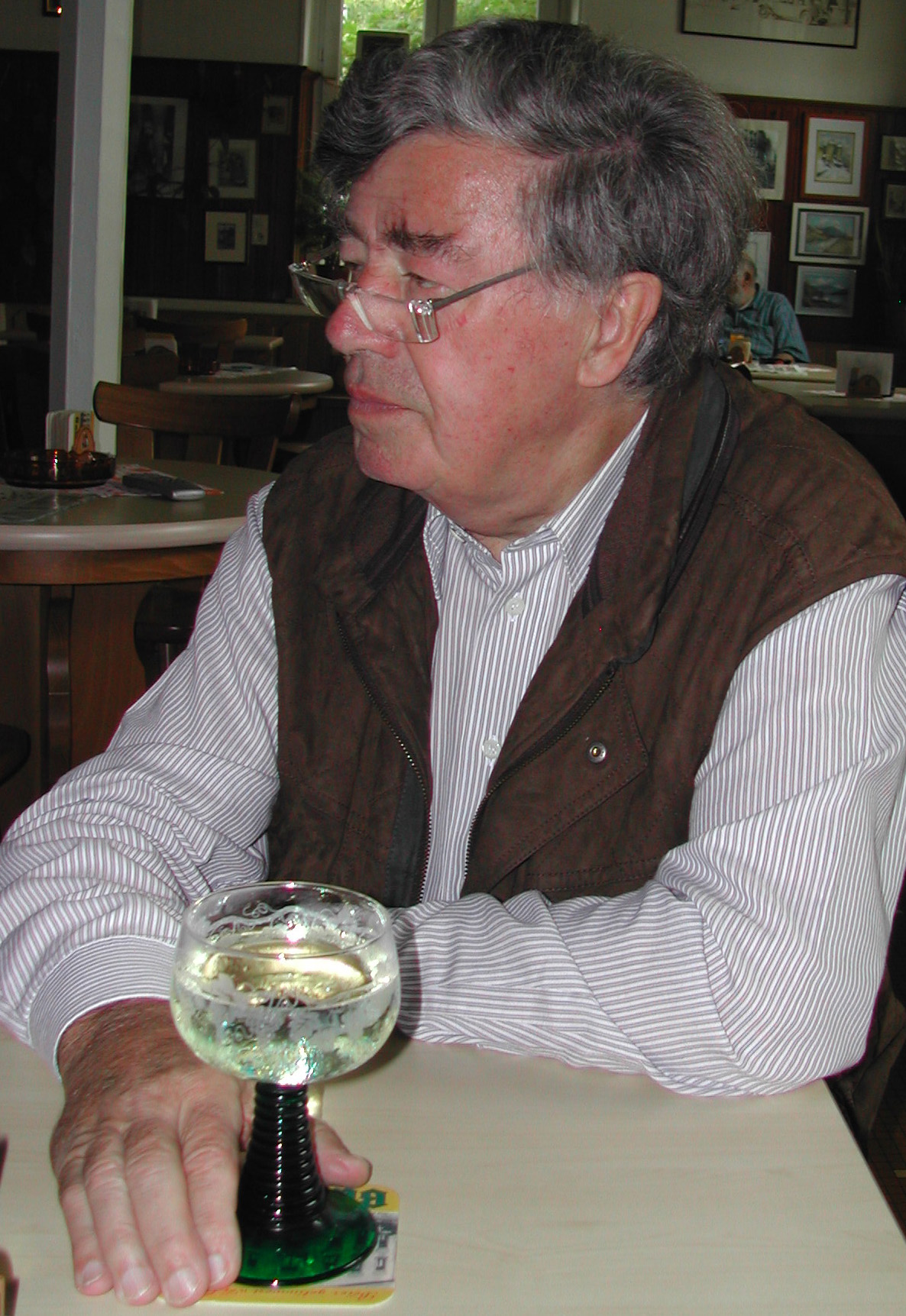 Portrait of Lex Jacoby